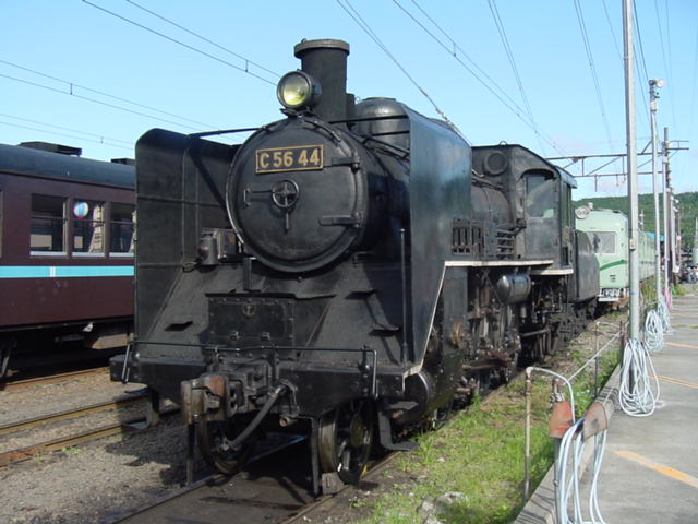 The 44th C56 type steam locomotive machine. It returns to Japan after it is delivered to Thailand at World War II, and it runs in Yasushi railway (Thai National Railways) until 1970's. The movement was preserved in Oikawa Railways. It takes a picture in Oikawa Railways Kanaya-station premises in July, 2001.